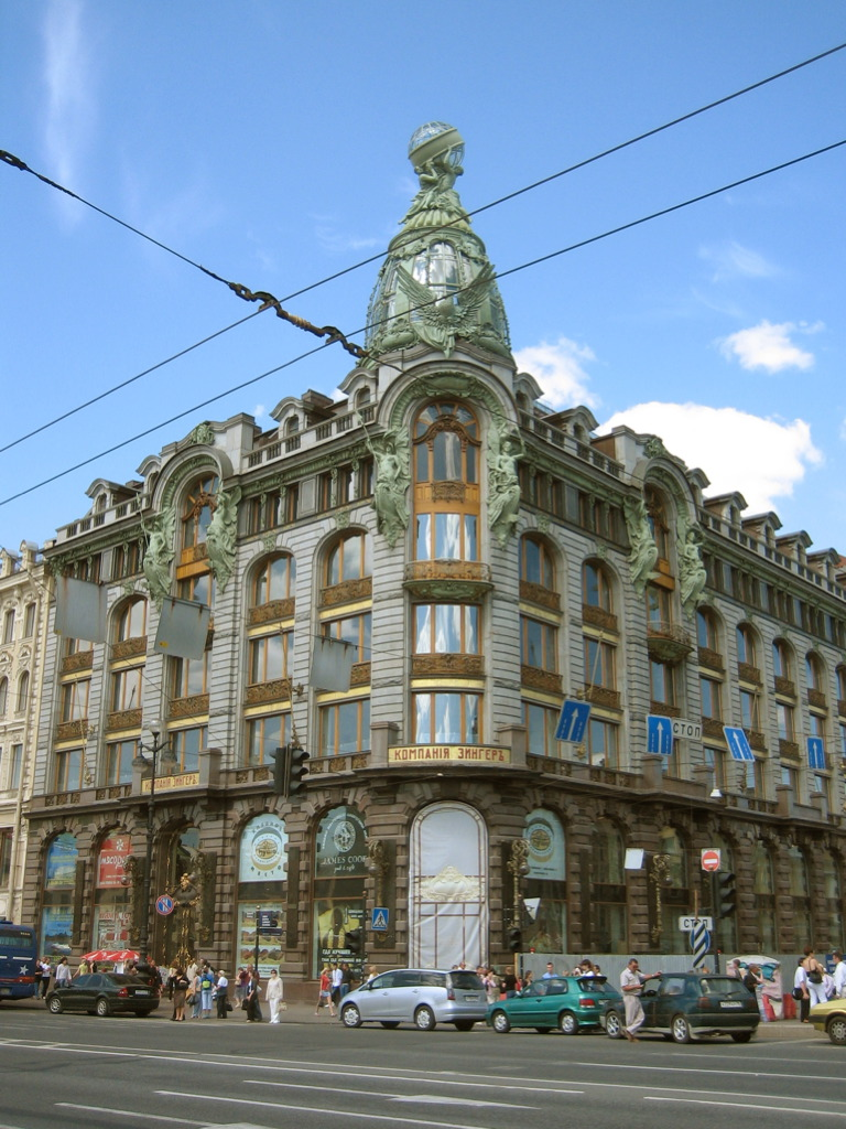 Zinger's House (Dom Knigi, House of Books) in Saint Petersburg.